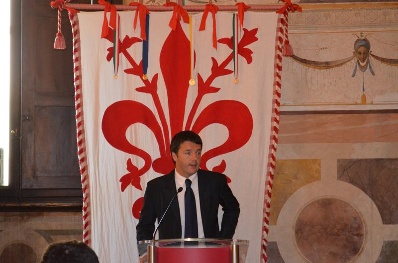 Matteo Renzi at The State of the Union 2012, European University Institute.